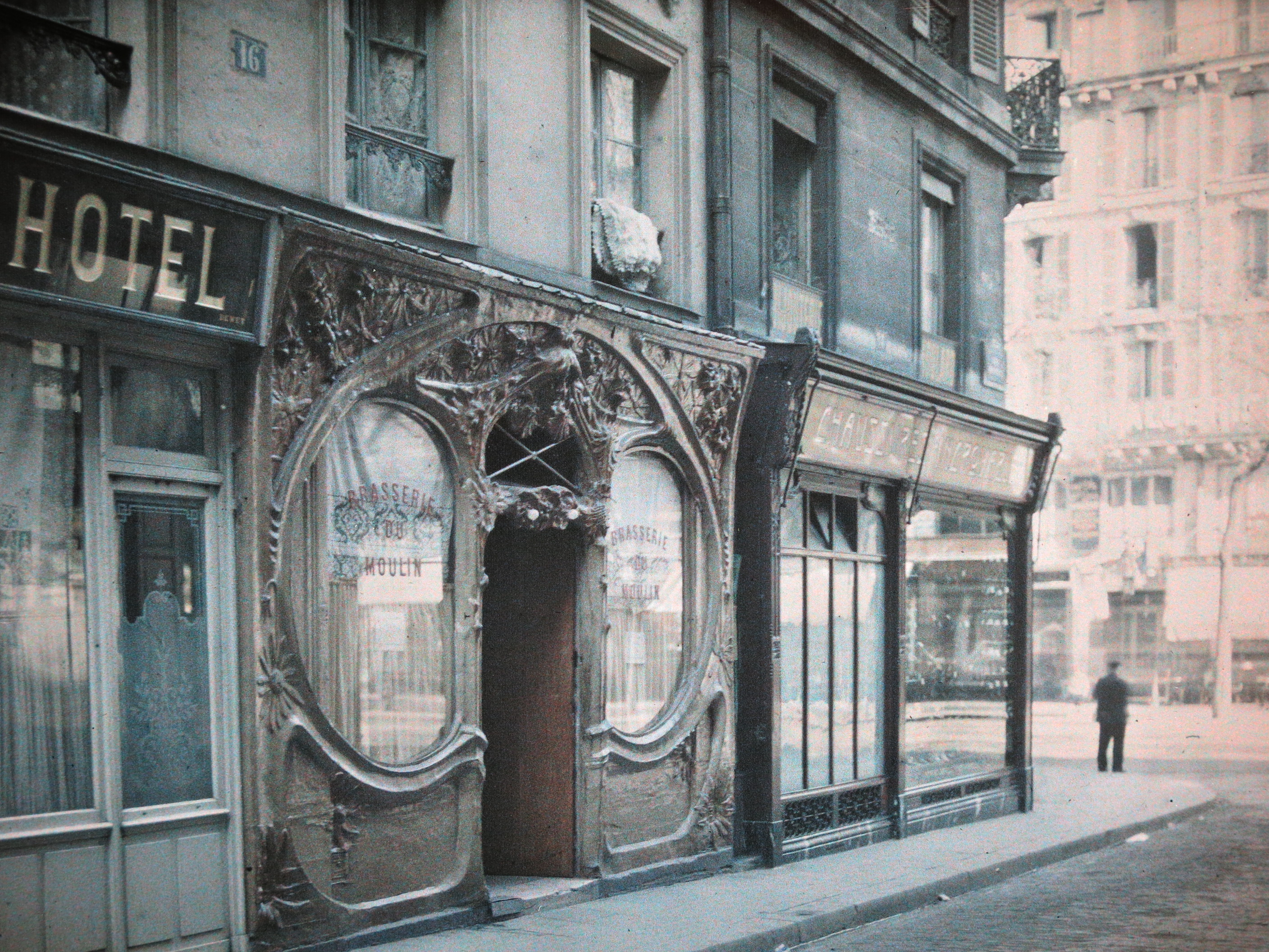 The brasserie du Moulin (=mill brewer), 16 rue Blondel, Paris 2nd arrond. in 1920. In these years, it was a brothel.